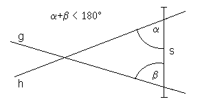 Euklid's fifth postulate